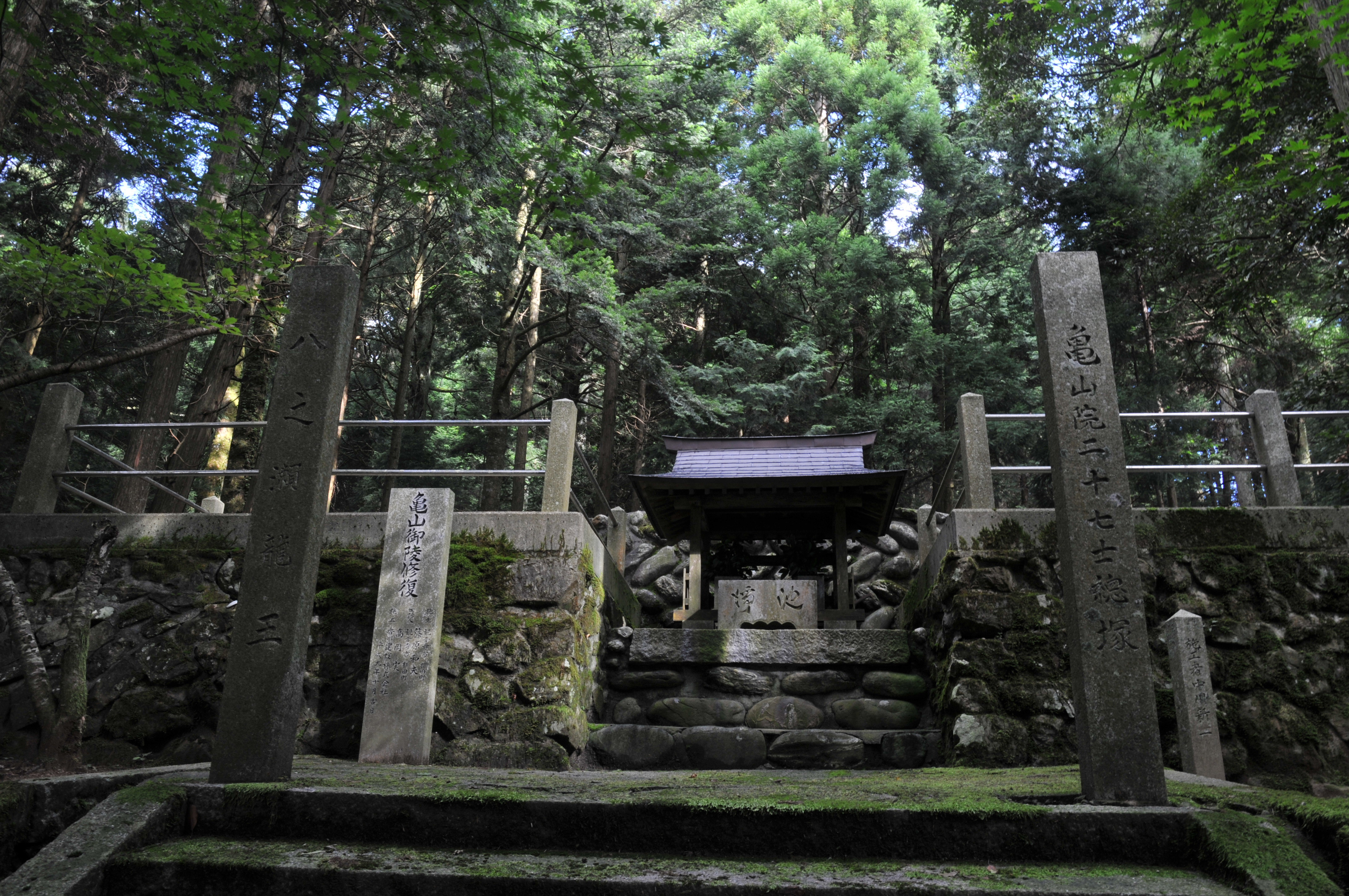 Kameyamain Sakuraoka Mausoleum